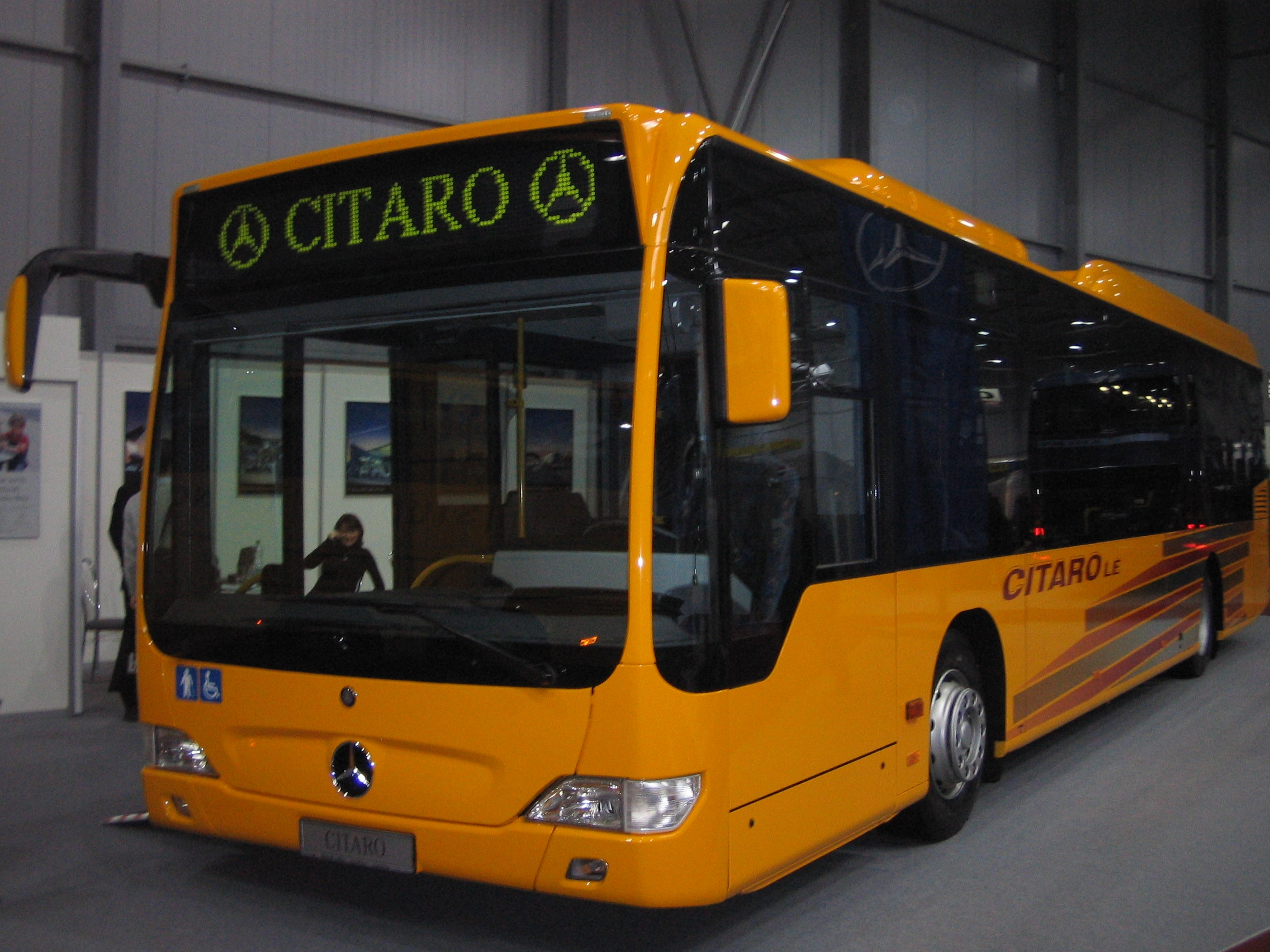 Low Entry bus Citaro in Prague-Letňany during exhibition